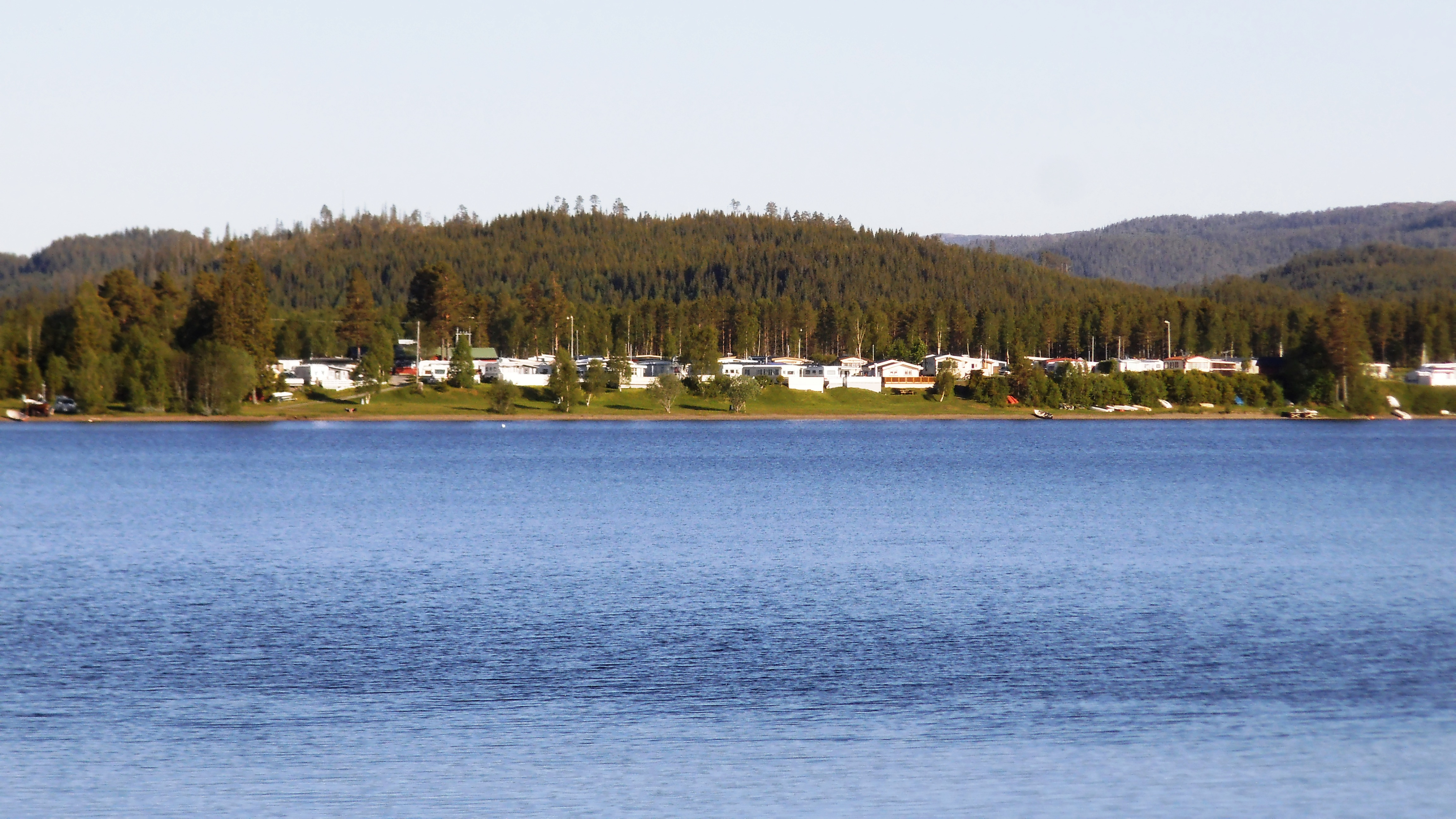 A campsite in Gåsbakken, Melhus, Norway.